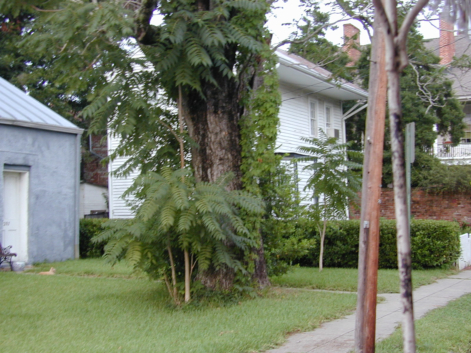 Aunt Polly's House from the movie Huck Finn